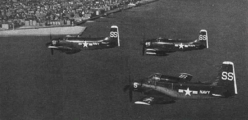 Three different types of Douglas AD Skyraider of the U.S. Navy's composite squadron VC-33 in flight hear Naval Air Station Atlantic City, New Jersey (USA), in 1955: An AD-3Q electronic countermeasures aircraft, an AD-4N night attack aircraft, and a wide-body AD-5N (left to right).